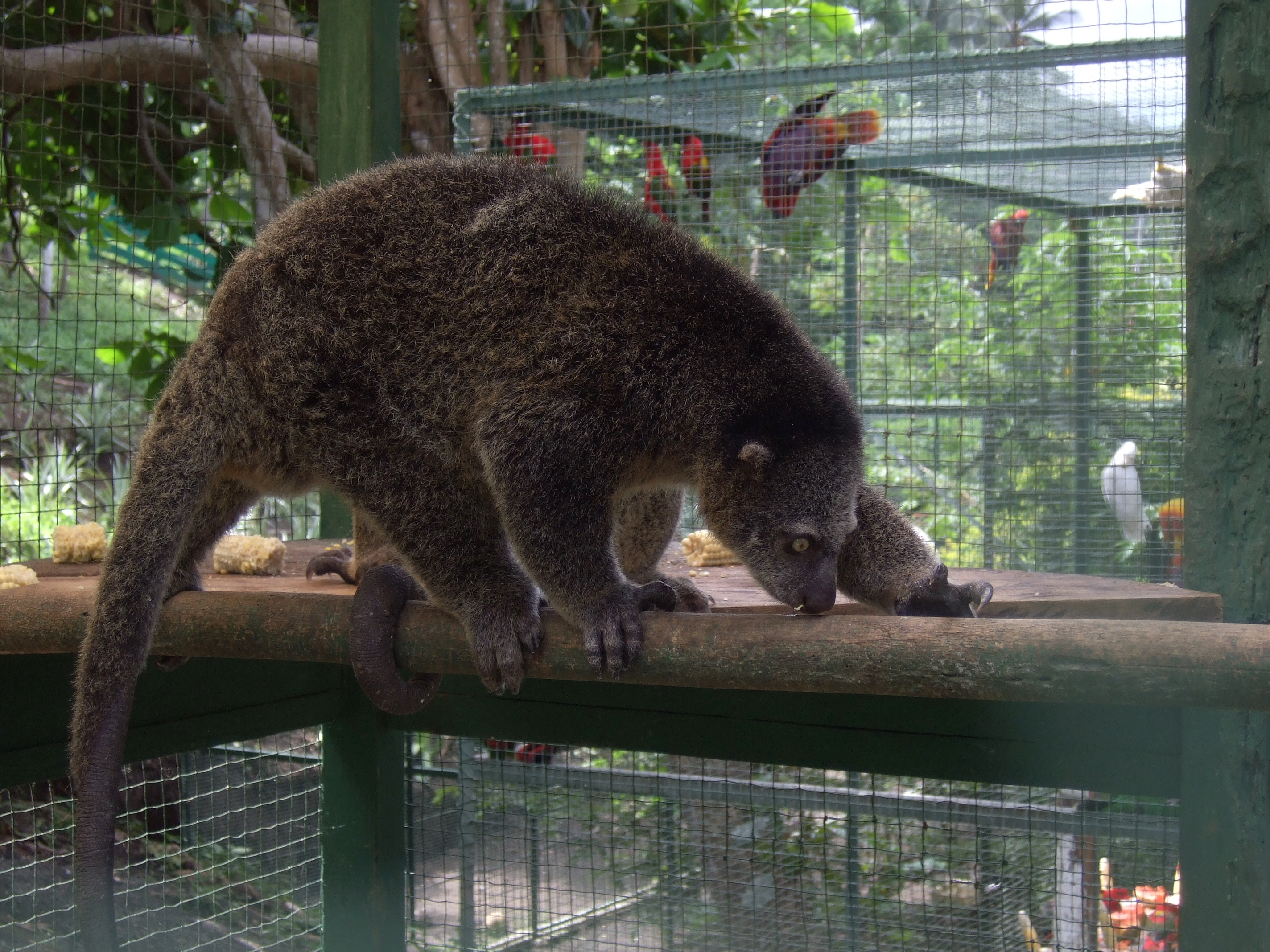 Ailurops ursinus walking